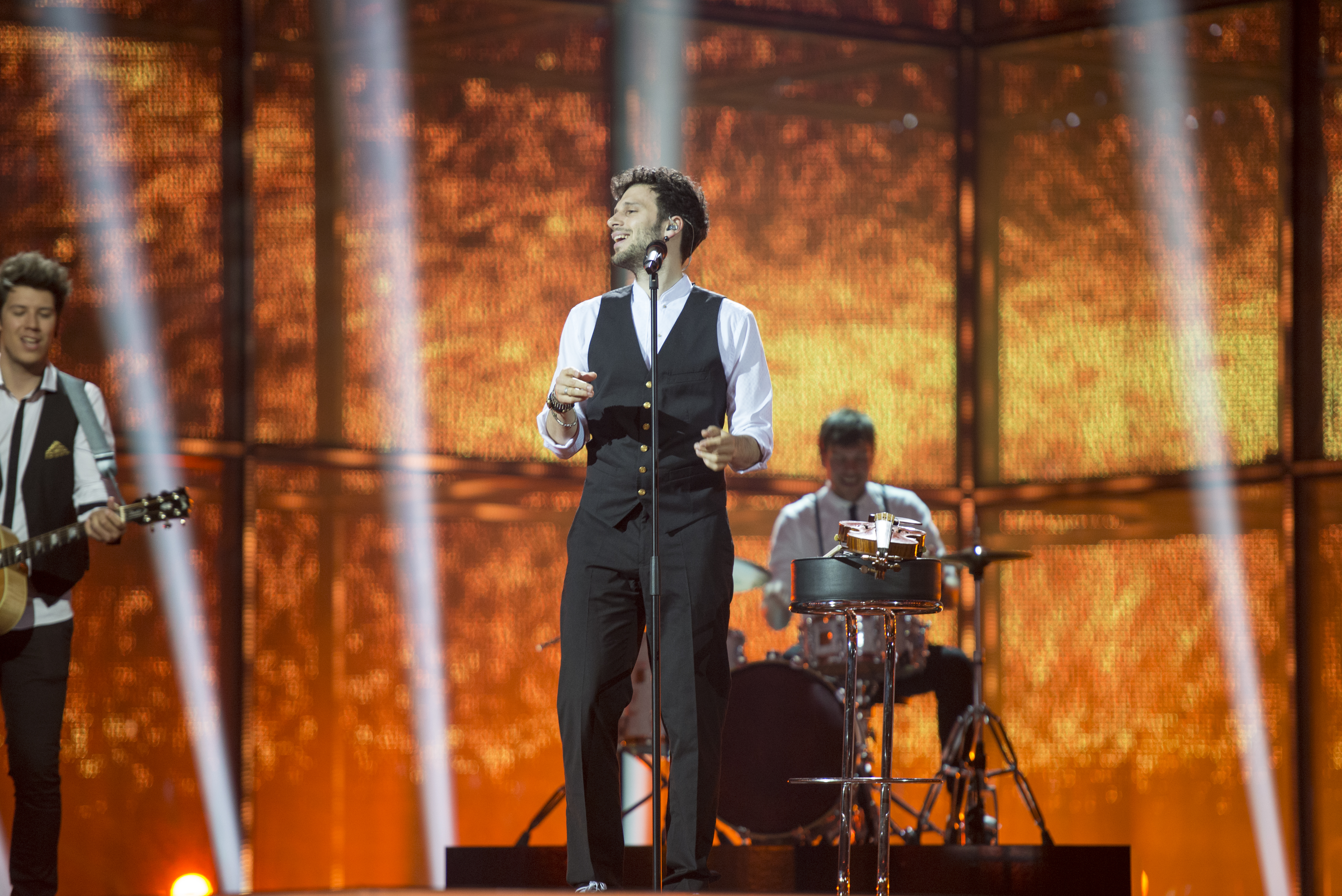 Sebalter representing Switzerland with the song "Hunter of Stars" during the first dress rehearsal of the second semi final of the Eurovision Song Contest 2014 Copenhagen. (Help translate this text)